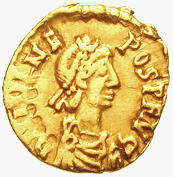 Julius Nepos. 474-475 AD. AV Tremissis (1.39 gm). Milan mint. D N IVL NEPOS P F AVG, pearl-diademed, draped and cuirassed bust right Cross in wreath; COMOB. RIC X 3221; Lacam 85. (slightly modified for infobox use)